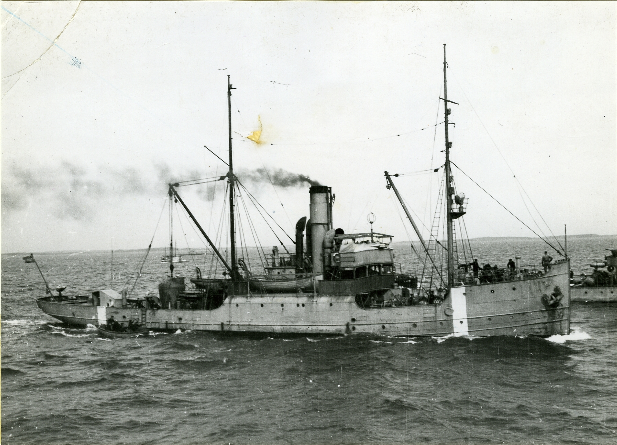 Salvage-vessel HMS Belos in Kalvsund, Bohuslän, Sweden in april 1943.